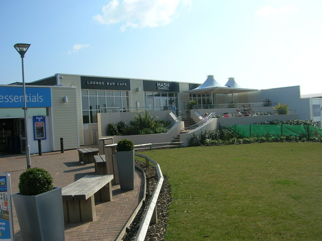 The Mash Barrel Part of the Primrose Valley complex.